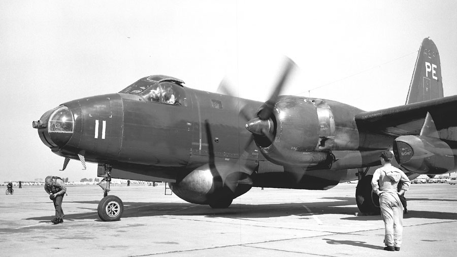 Moffett Field May 1958.